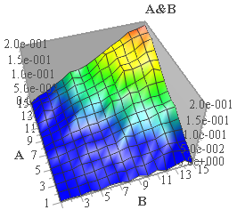 Diagram/statistics